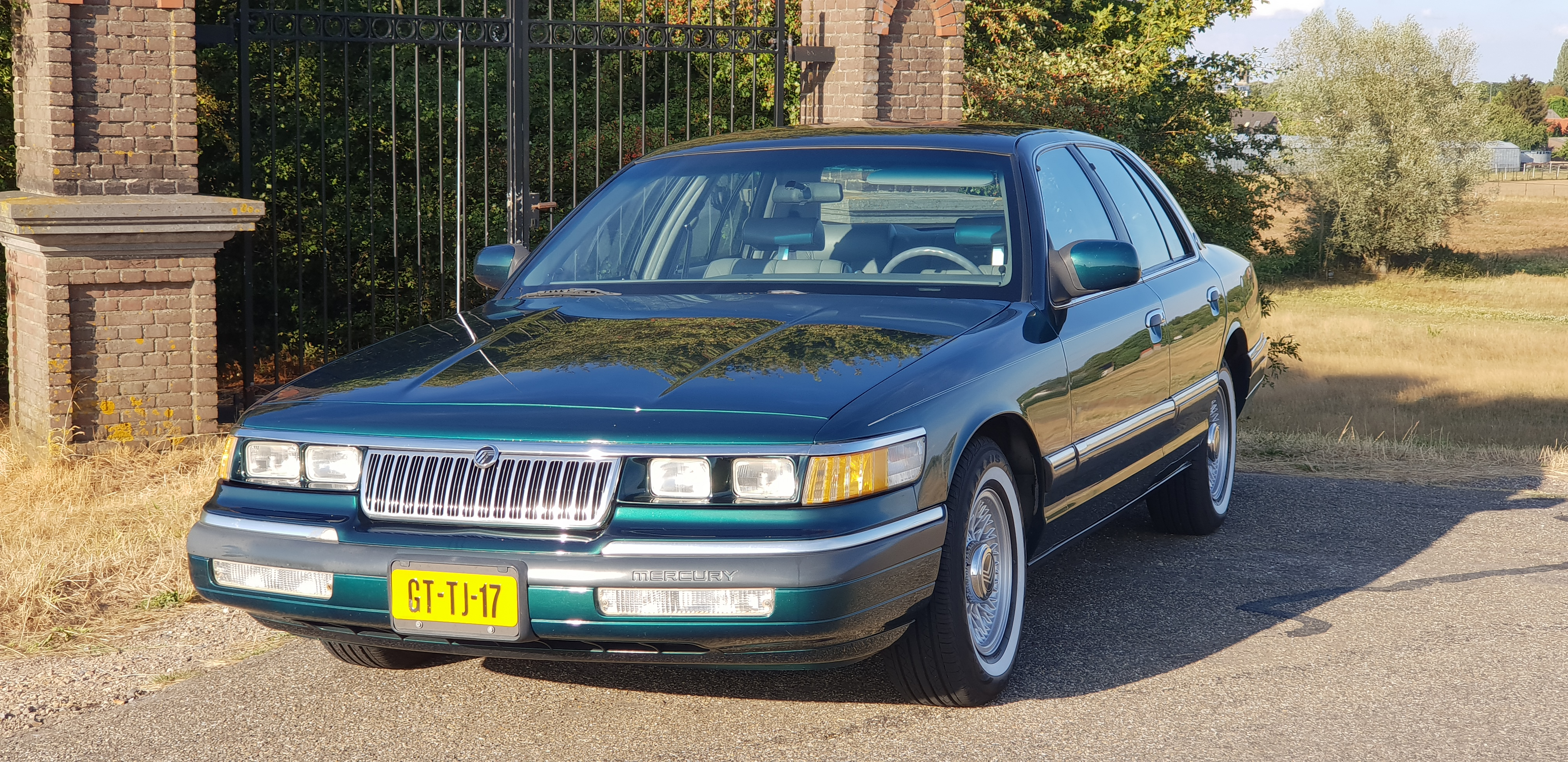 1993 Grand Marquis. Canadian export version with a different headlight set-up. Delivered new in the Netherlands.